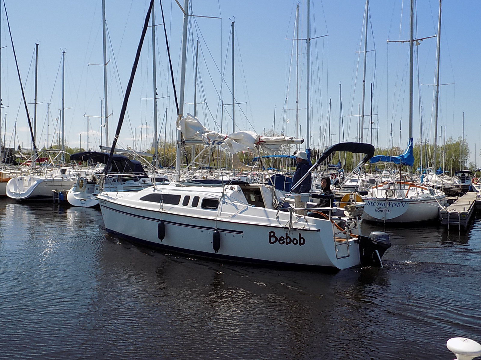 A Hunter 26 sailboat named Bebob.